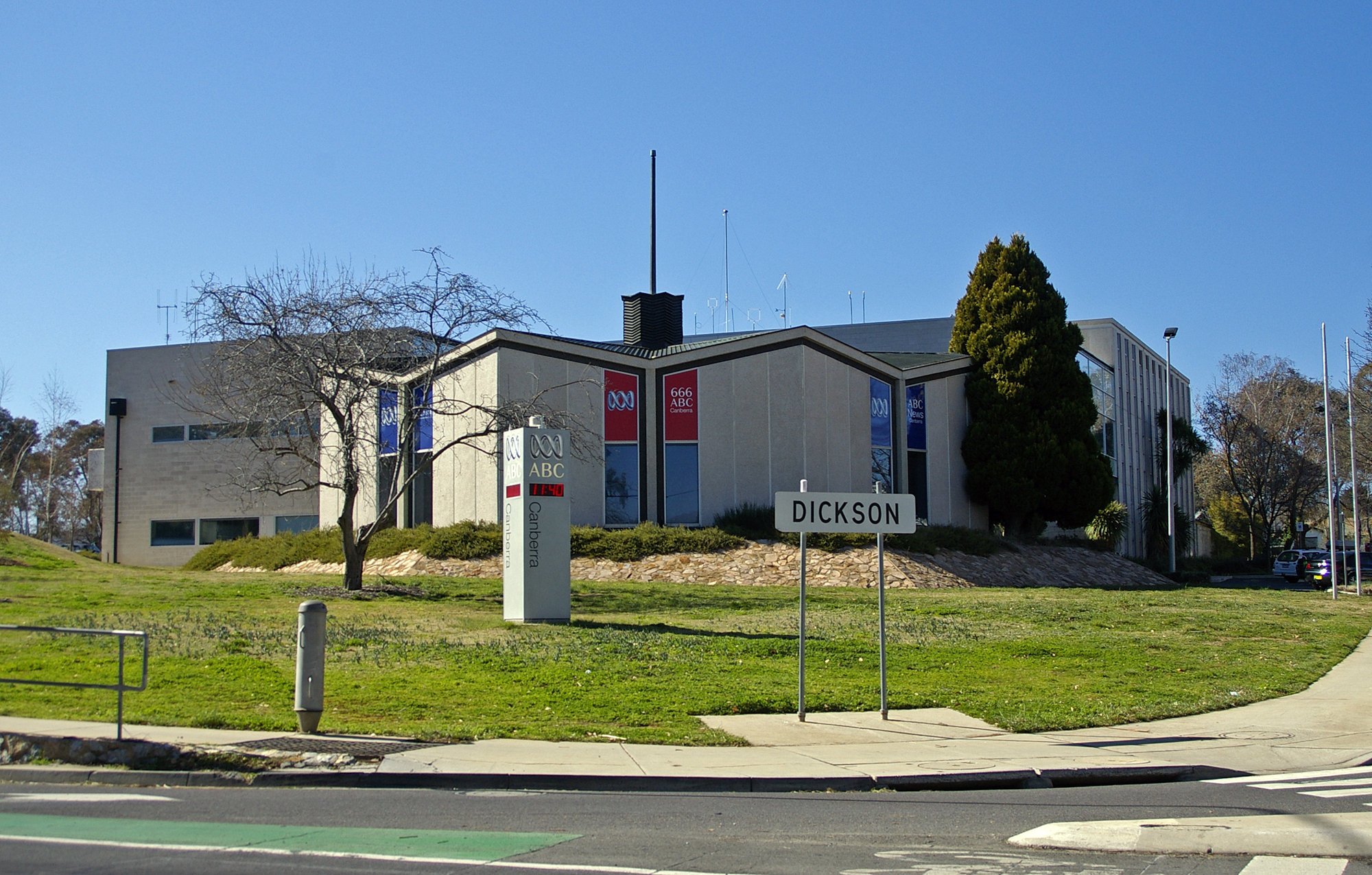 ABC Canberra radio and TV studios in the Canberra suburb of Dickson.